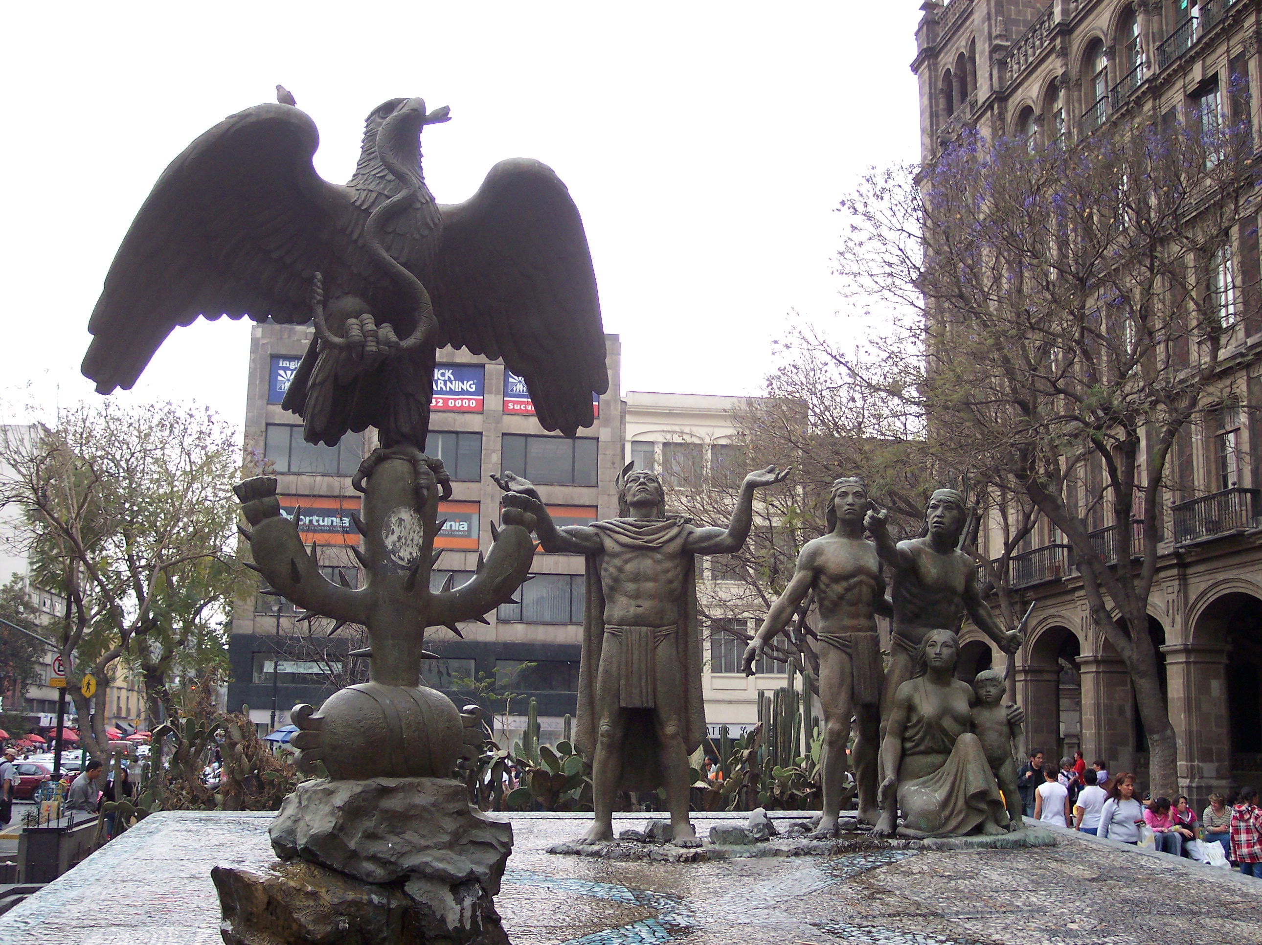 Mexican sculpture remembering the moments when Aztecs found the sign for Tenochtitlan foundation place. This is present day mexico not present day aztec. The sculpture is near the Zocalo, in Pino Suarez Street, Historical Center, Mexico City. Mexico.